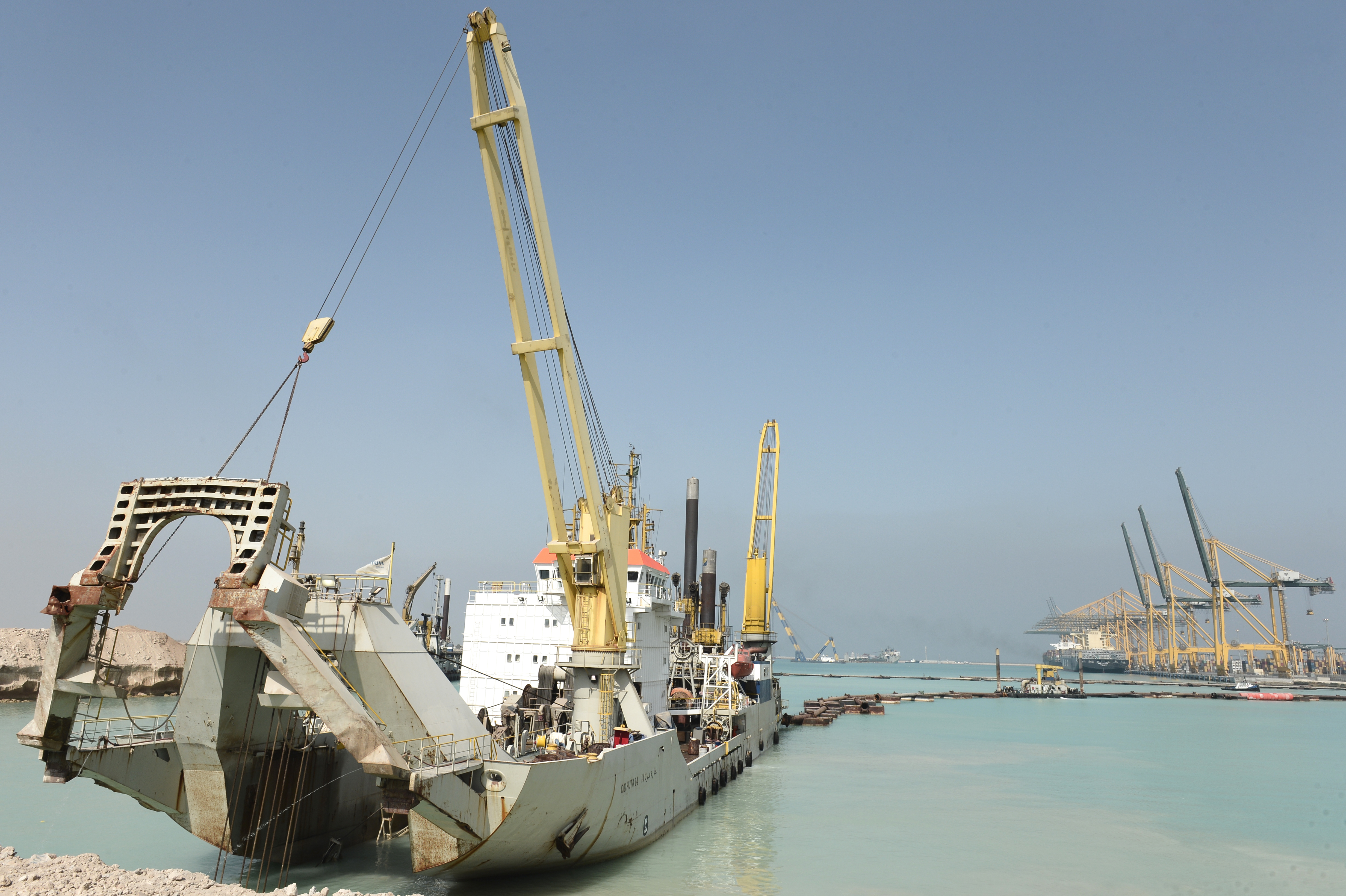 Marine equipment at King Abdullah Port, KAEC